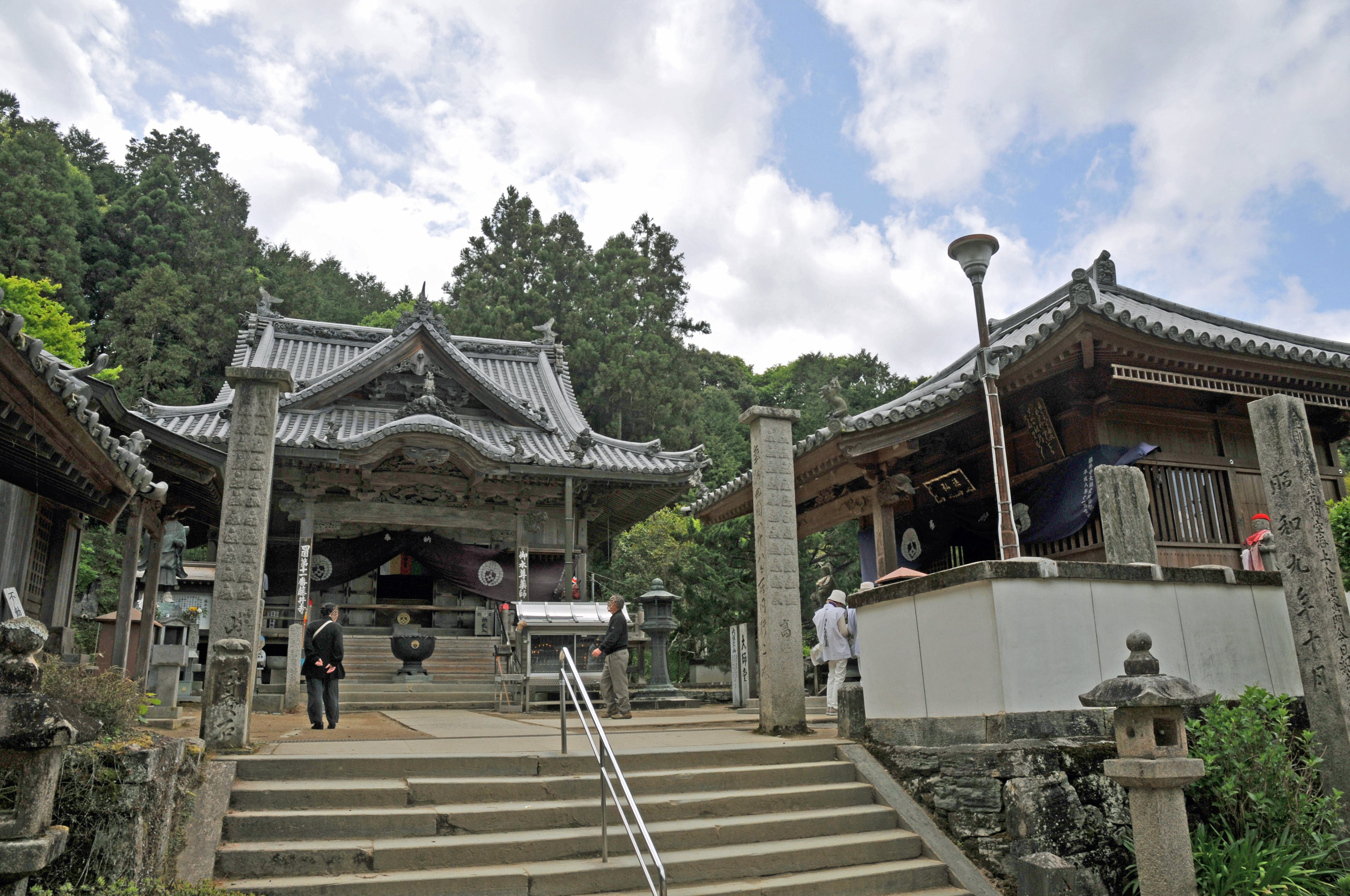 Main temple(front) and Daishi-dō(right), Fujii-dera